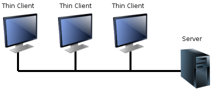 A diagram showing a server with three thin clients.